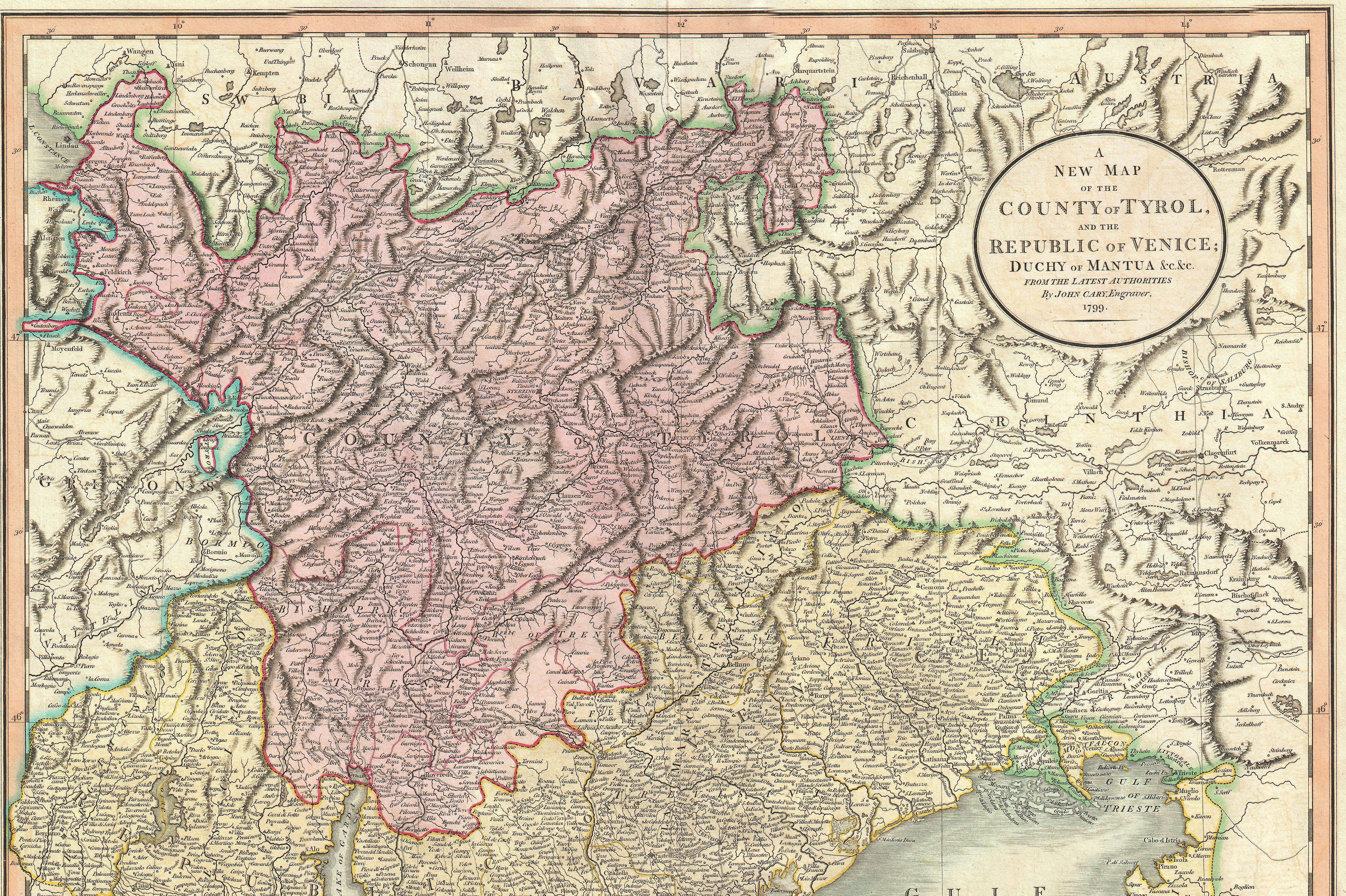 An extremely attractive example of John Cary’s important 1799 map of the County of Tyrol. Covers Bergamo and Lake Constance eastward, past Tyrol, Venice, and Mantua to Istria and the Gulf of Trieste. Offers stupendous detail and color coding according to region. All in all, one of the most interesting and attractive atlas maps the Venice, Mantua and Tyrol to appear in first years of the 19th century. Prepared in 1799 by John Cary for issue in his magnificent 1808 New Universal Atlas .